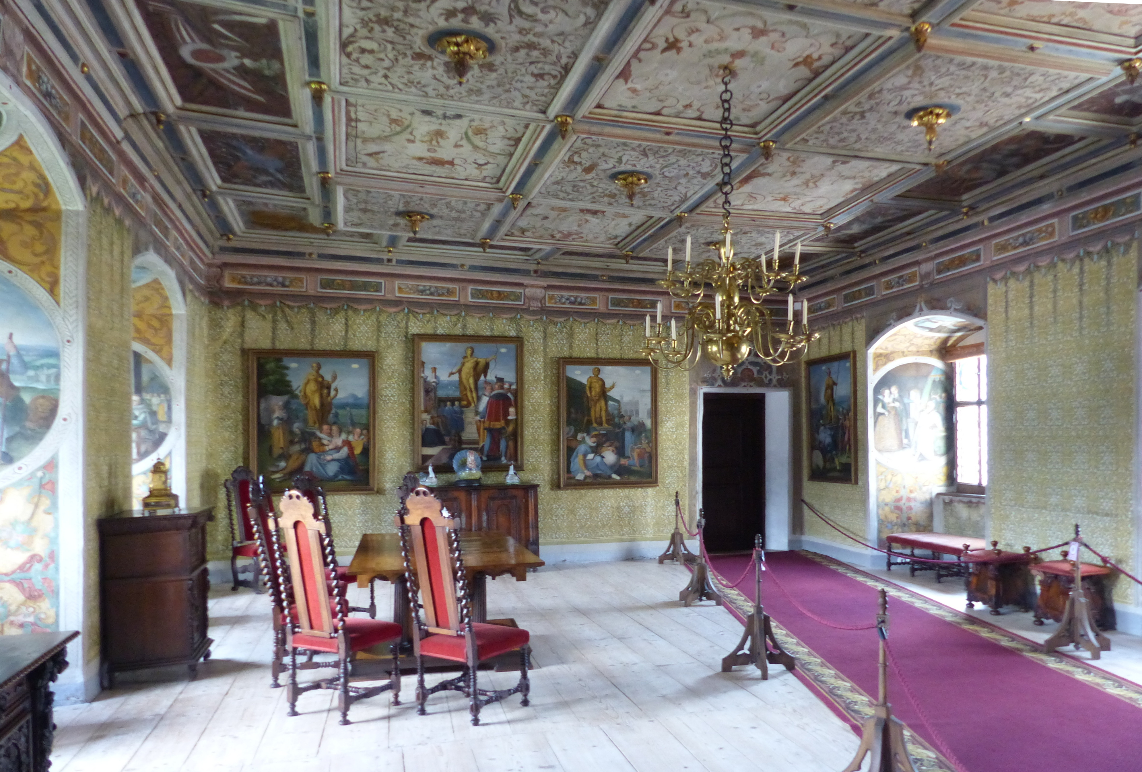 Rožmberk ( Czech Republic ). Lower castle - Knight's hall ( 1610 )